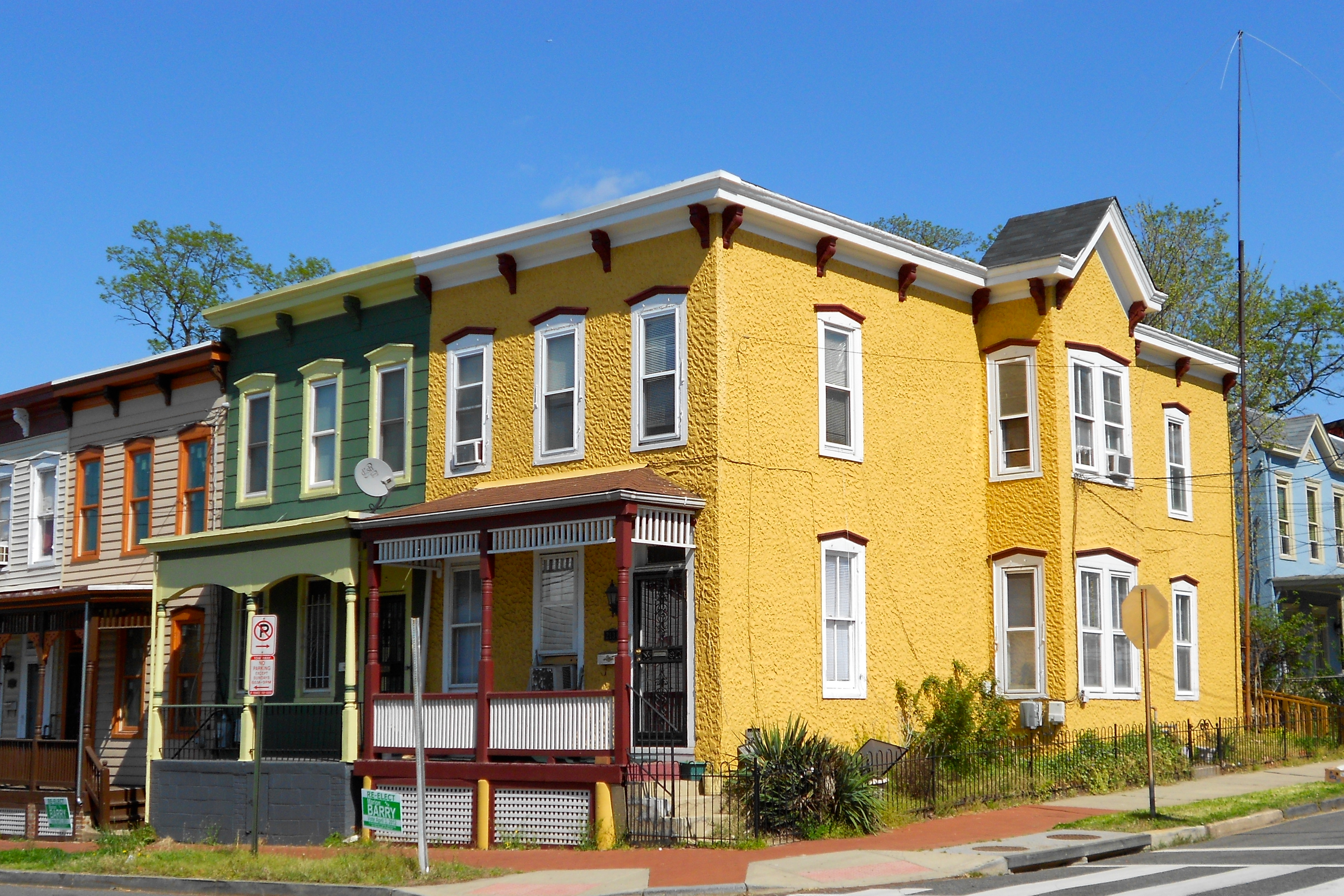 Houses at 13th Street and W Street, SE in in Anacostia Historic District on the NRHP since October 11, 1978. The district is roughly bounded by Martin Luther King, Jr. Avenue (on west); Good Hope Road (on north); 16th Street; Fendall Street; V Street; 15th Street and the Frederick Douglass National Historic Site; Maple View Place, in SE quadrant of Washington, DC. Comprises approximately 20 squares and about 550 buildings built between 1854 and 1930